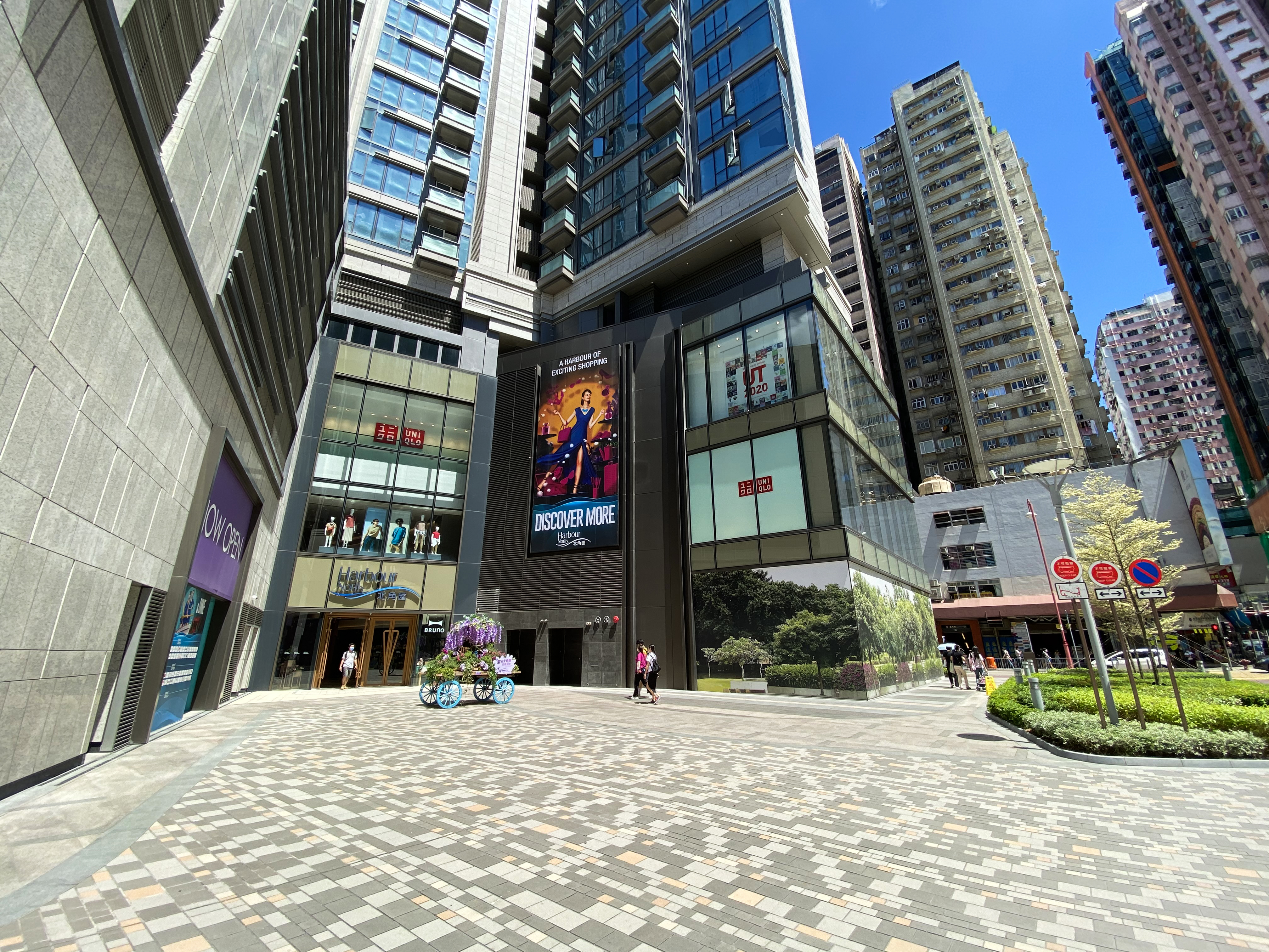 Harbour North Phase 2